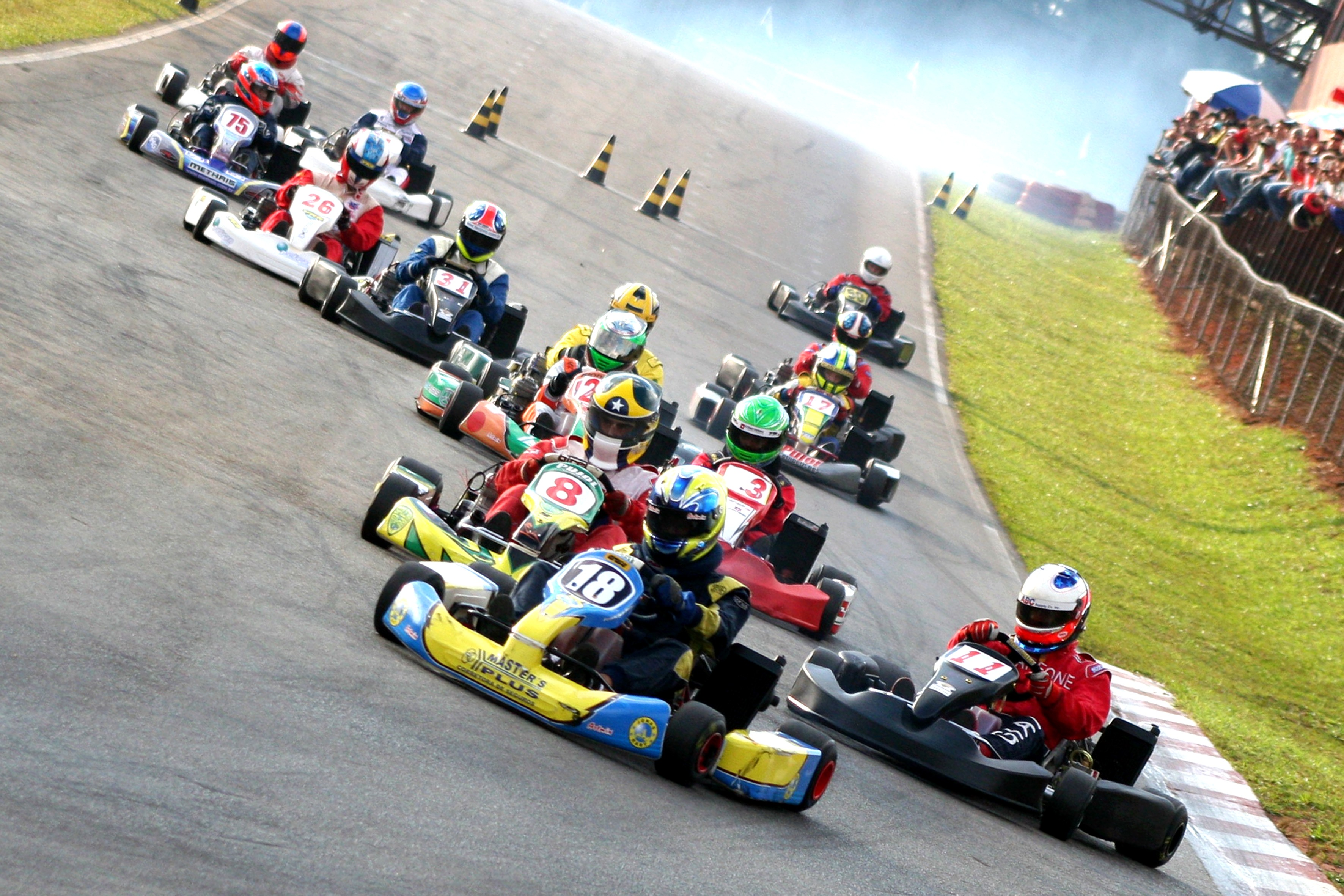 Race start of Stock 125 in Granja Viana championship